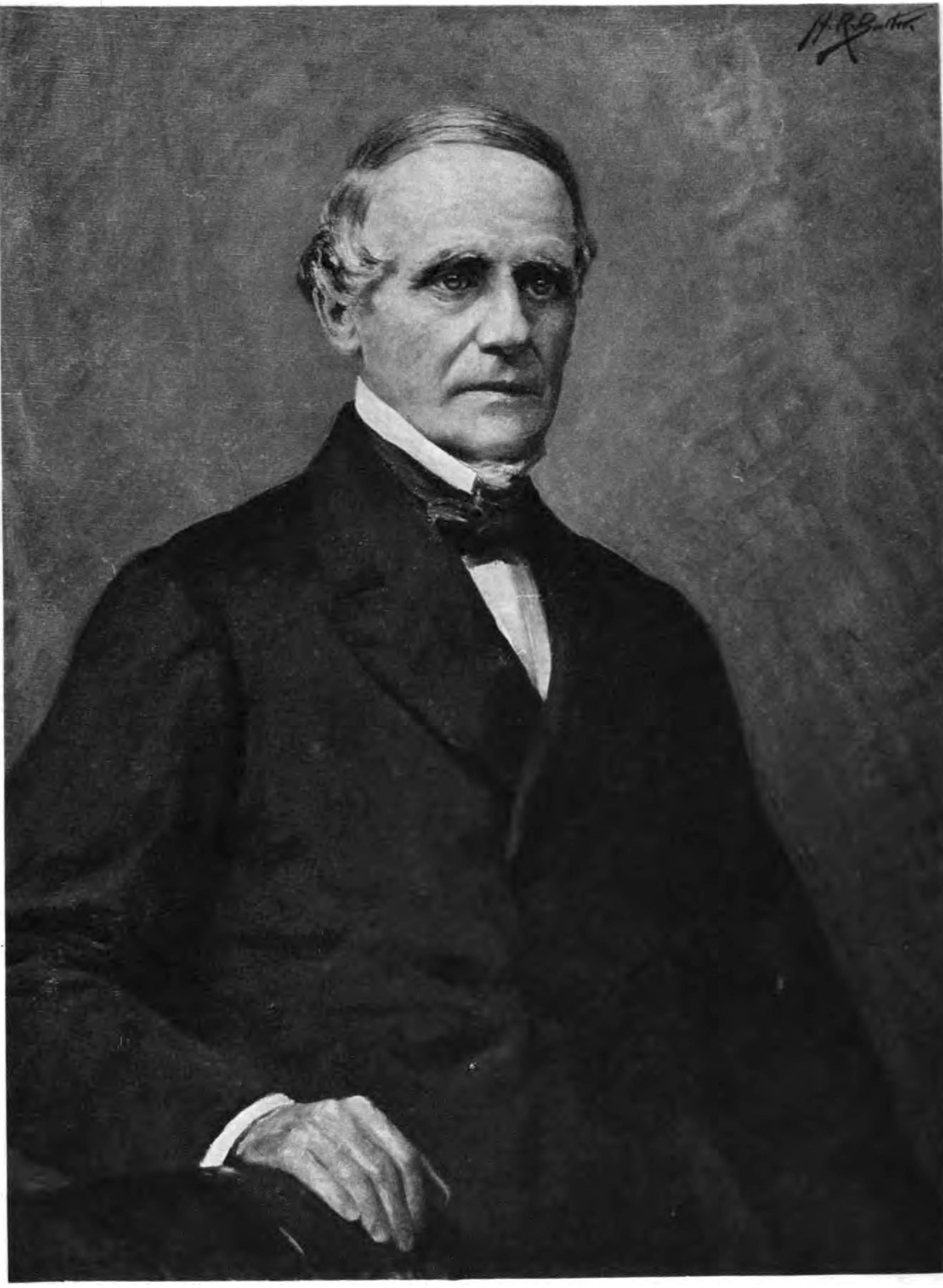 A portrait of Thomas Story Kirkbride by Howard Russell Butler